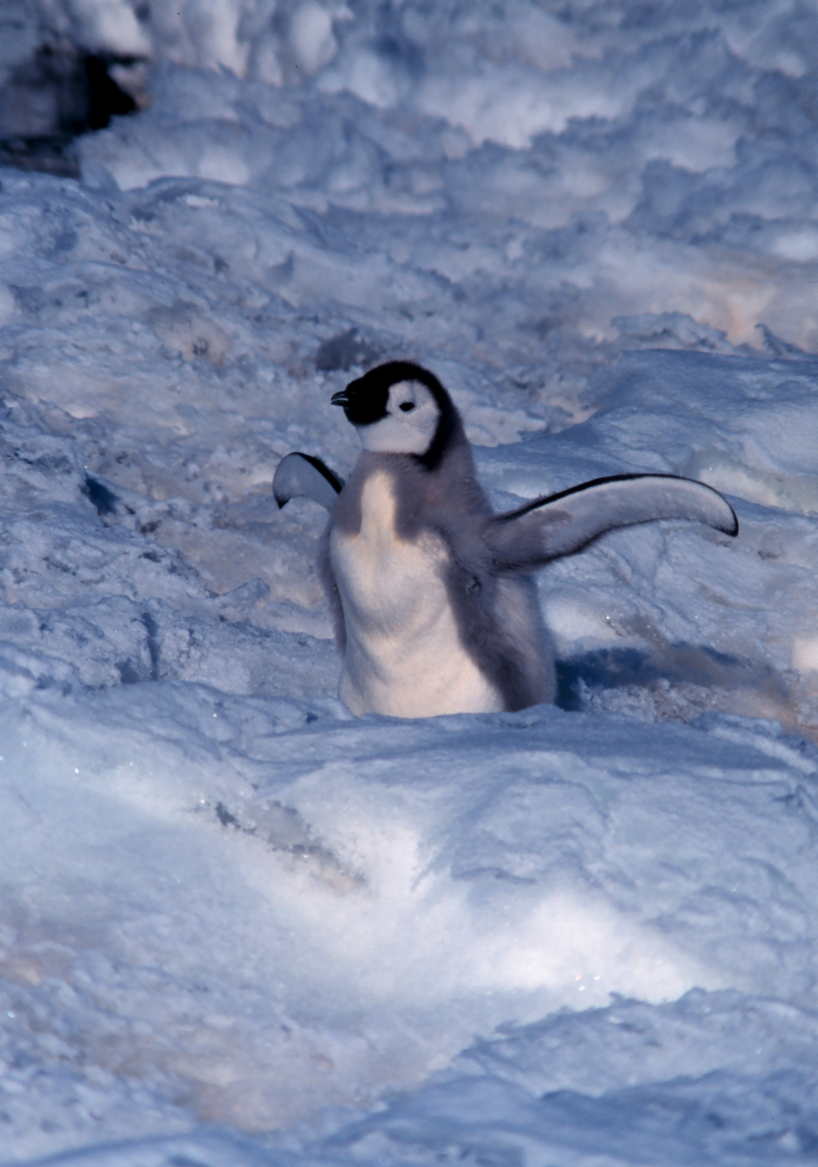 Emperor penguin chick at Cape Washington